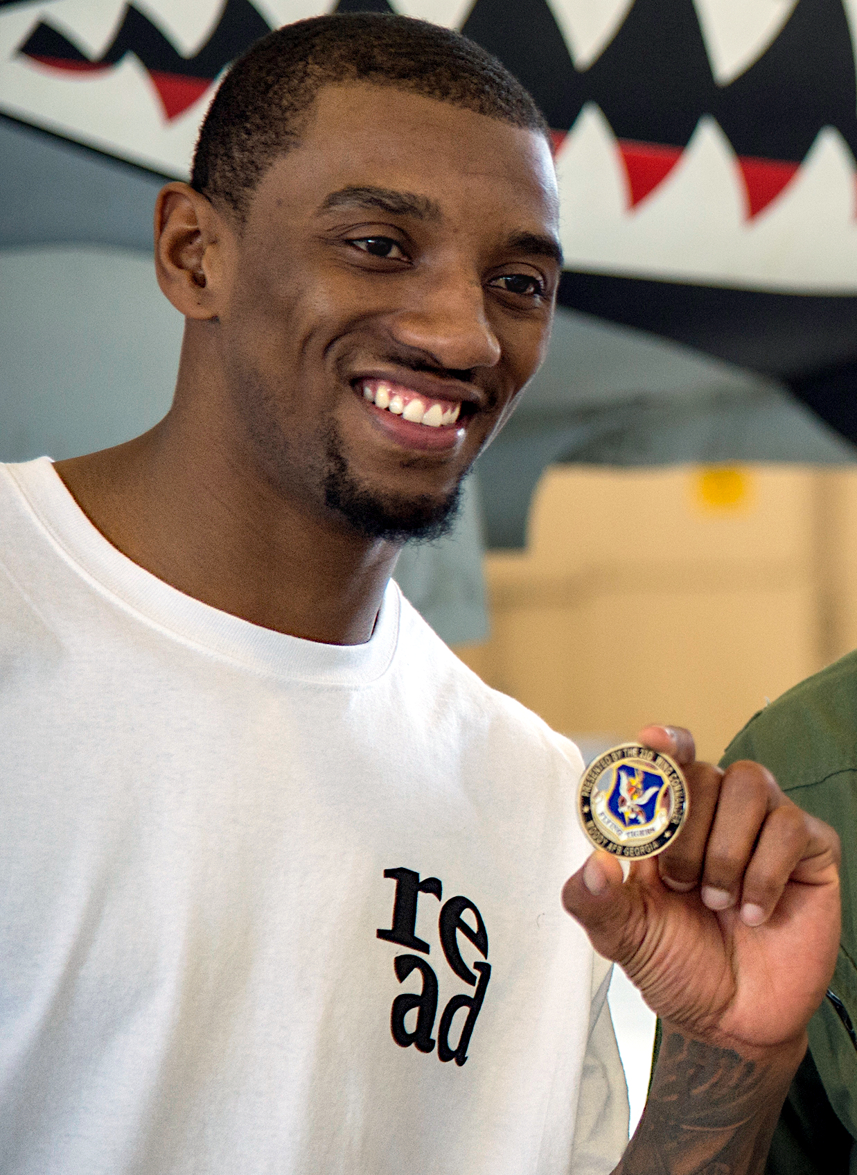 Malcolm Mitchell, left, New England Patriots’ wide receiver and Super Bowl LI Champion and Col. Thomas Kunkel, 23d Wing commander, pose for a photo during his visit March 7, 2017, at Moody Air Force Base, Ga. Mitchell, who is a Valdosta native, got a glimpse of a typical day in the life of some of Moody’s Airmen from the 23d Fighter Group, 23d Maintenance Group, 23d Mission Support Group, and the 820th Base Defense Group. During his visit, Mitchell also spent time with Airmen and signed autographs for local Patriots’ fans. (U.S. Air Force photo by Senior Airman Ceaira Young)